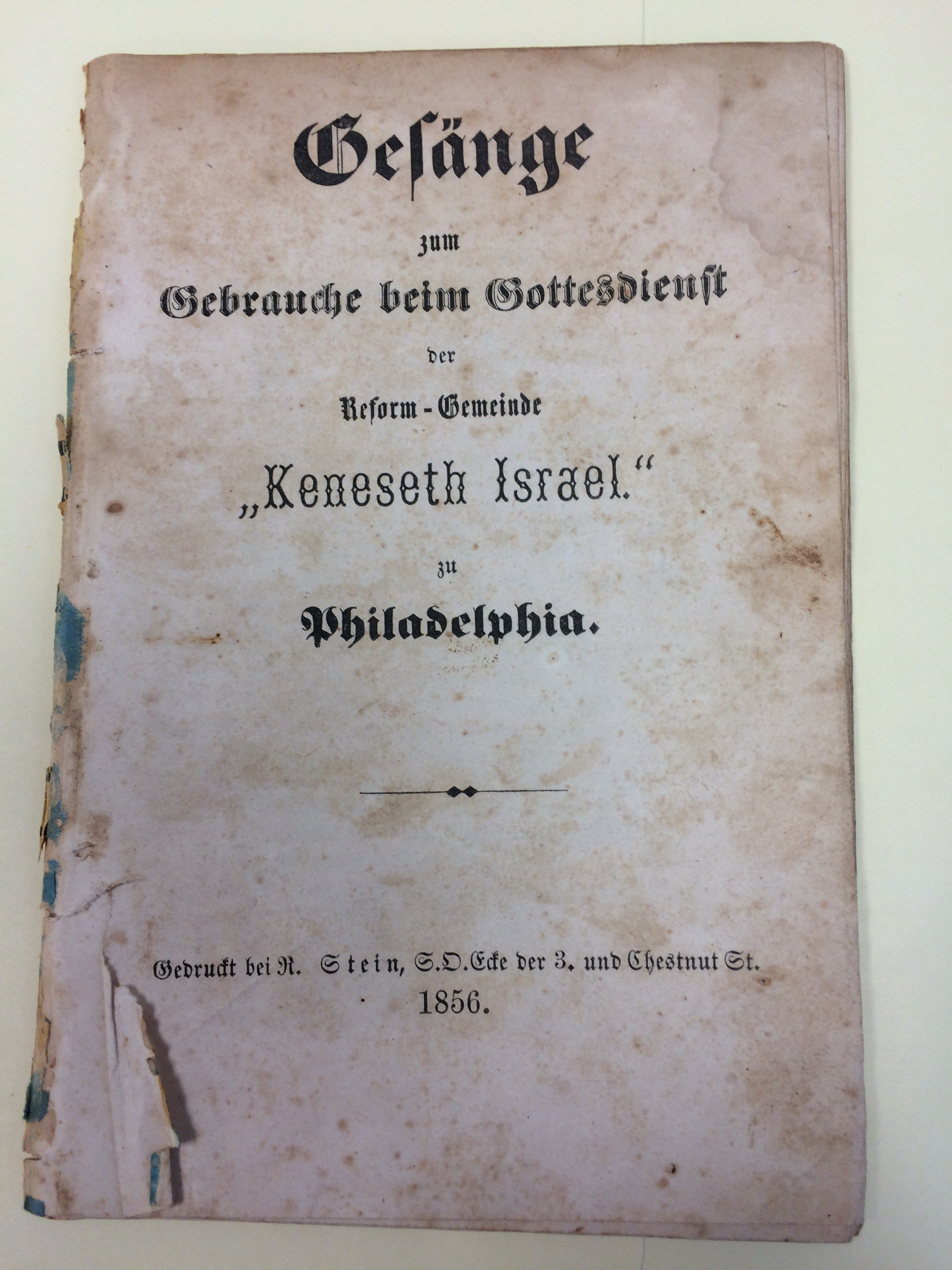 Cover page. From the Library of the Leo Baeck Institute in New York, call number r 514